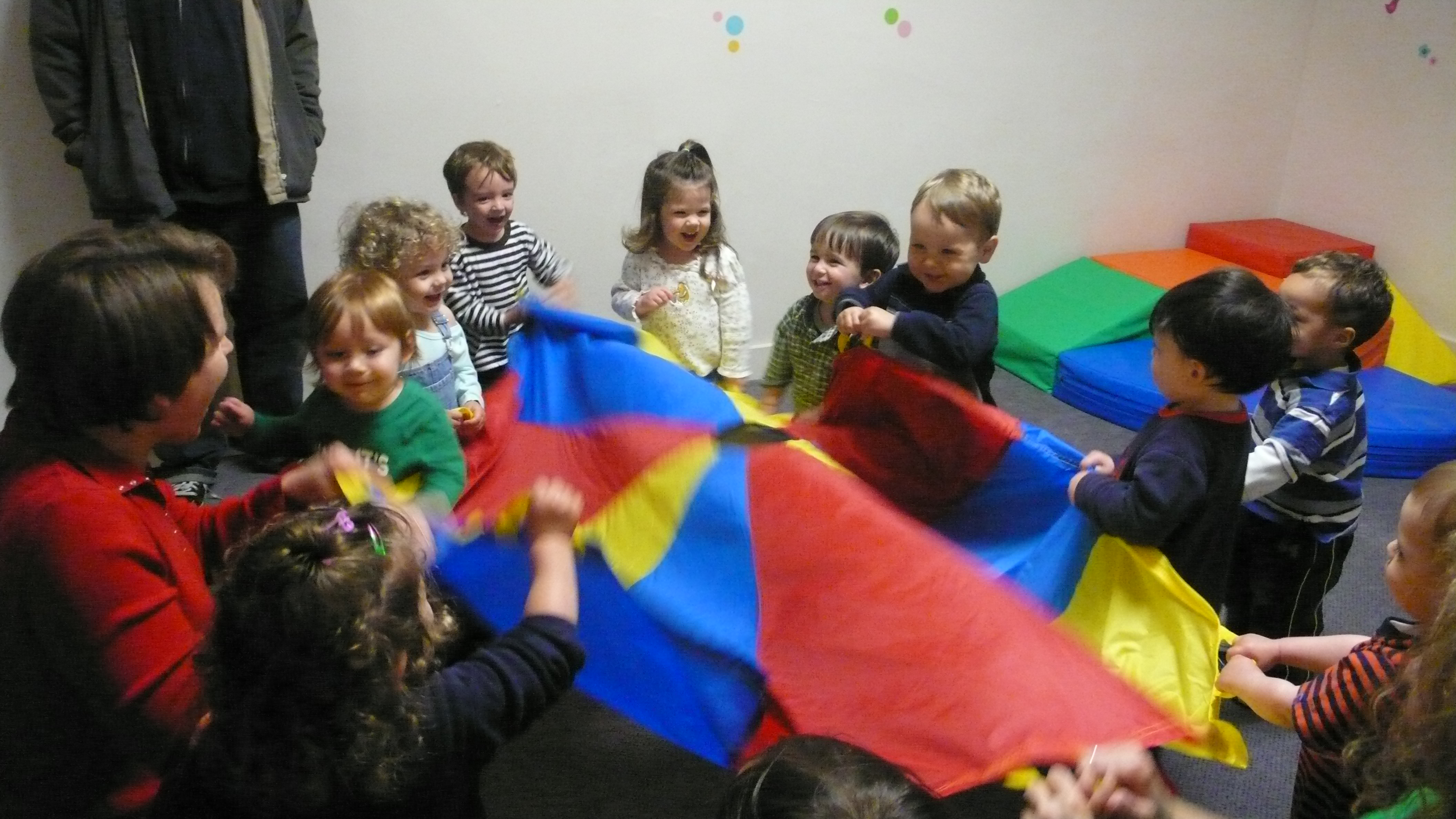 Guthrie at daycare with all his daycare friends.